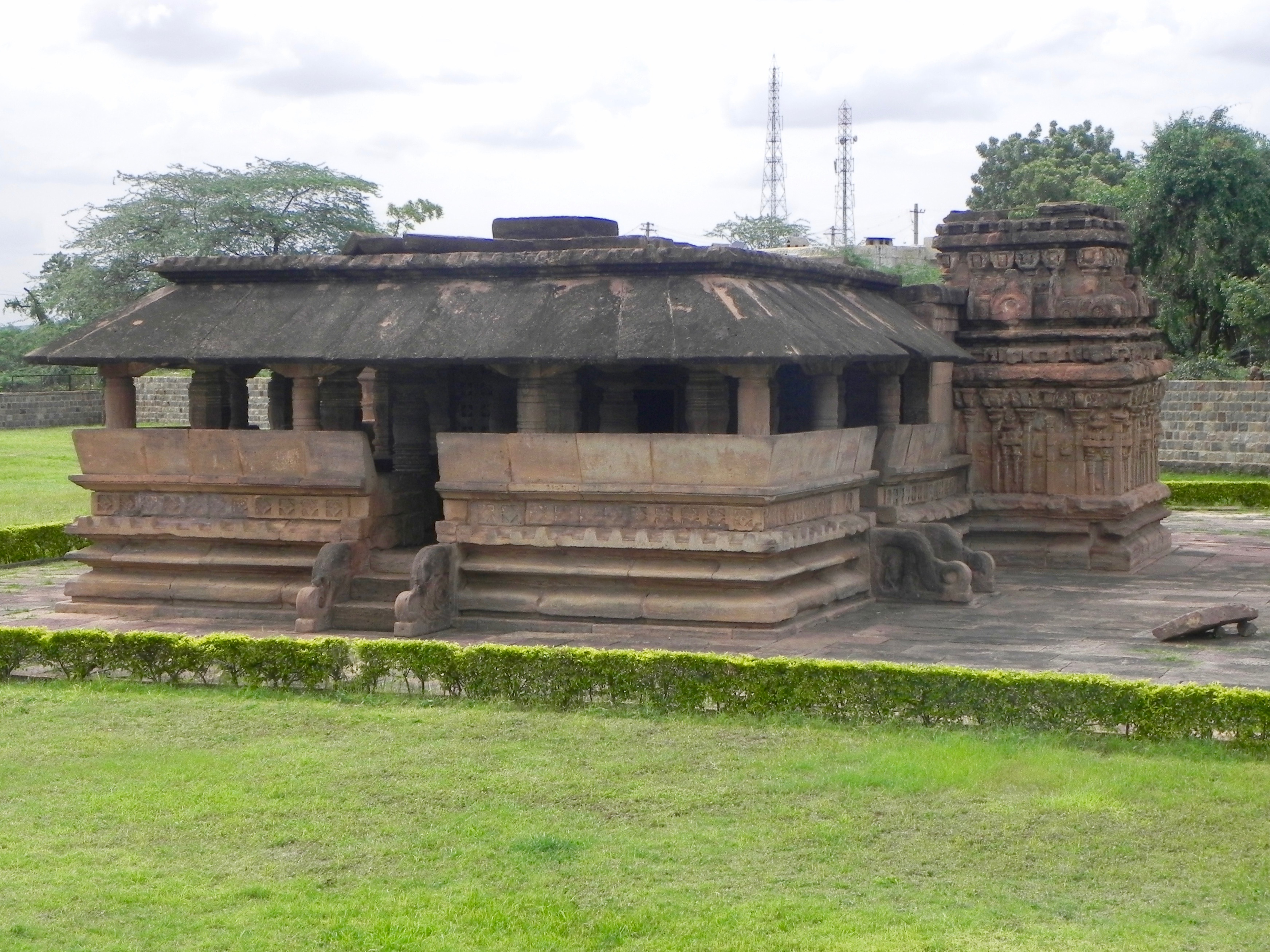 Rachigudi Temple, Aihole, Karnataka, India